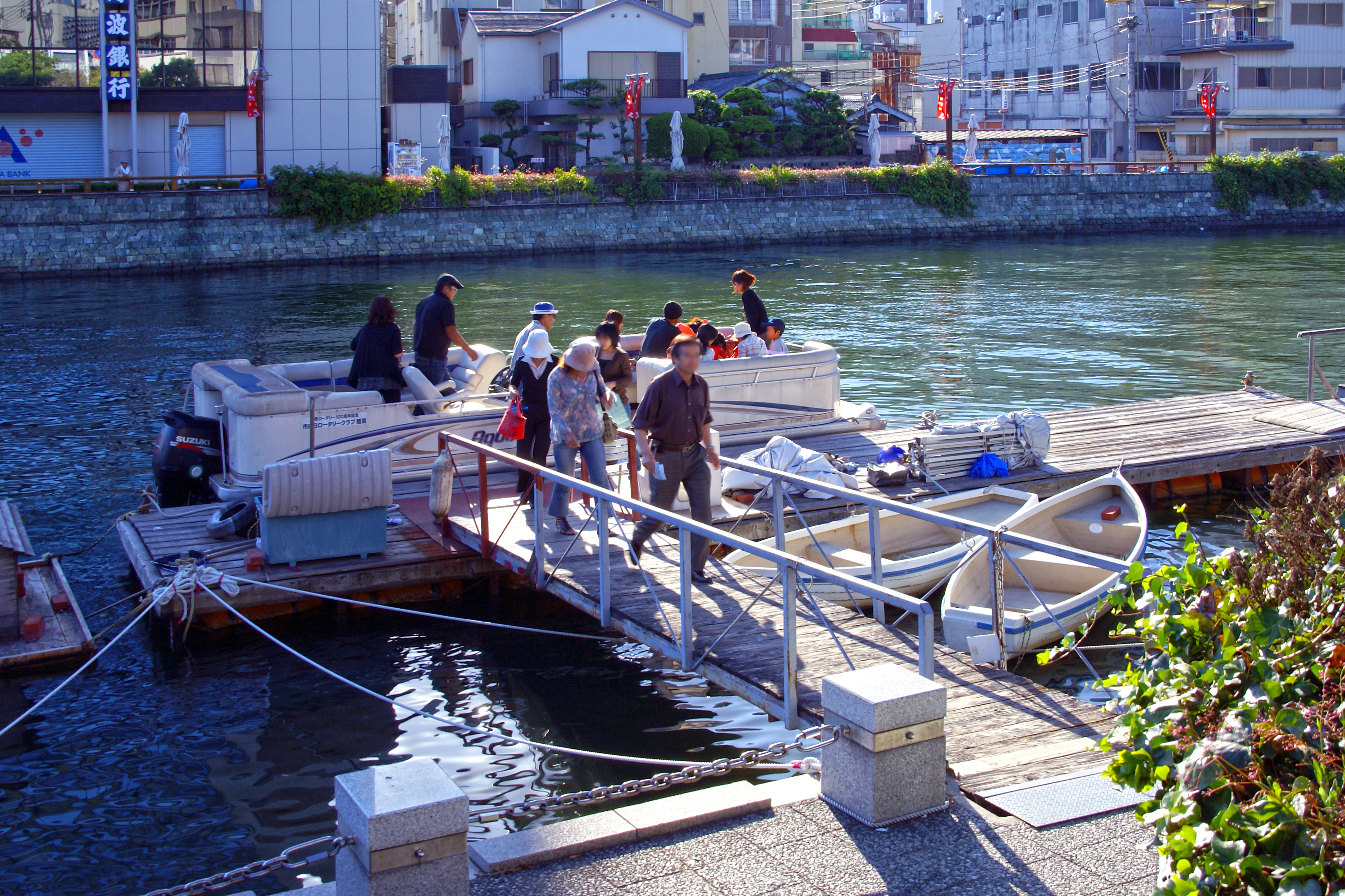 Shinmachi-gawa riverside park in Tokushima, Tokushima prefecture, Japan